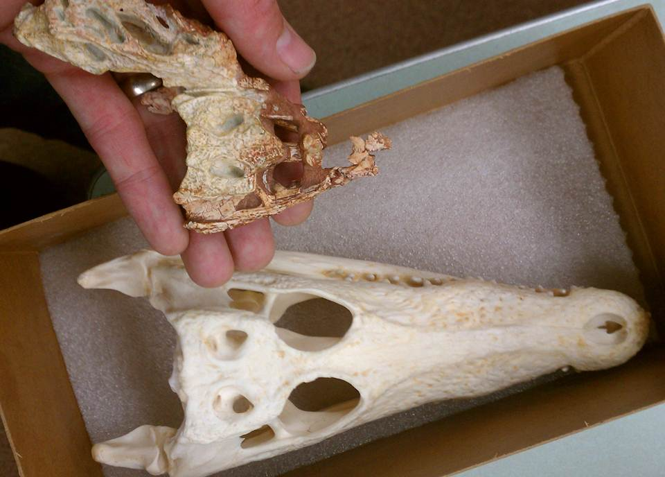 Wannchampsus kirpachi holotype and paratype with modern Crocodylus porosus skull for comparison